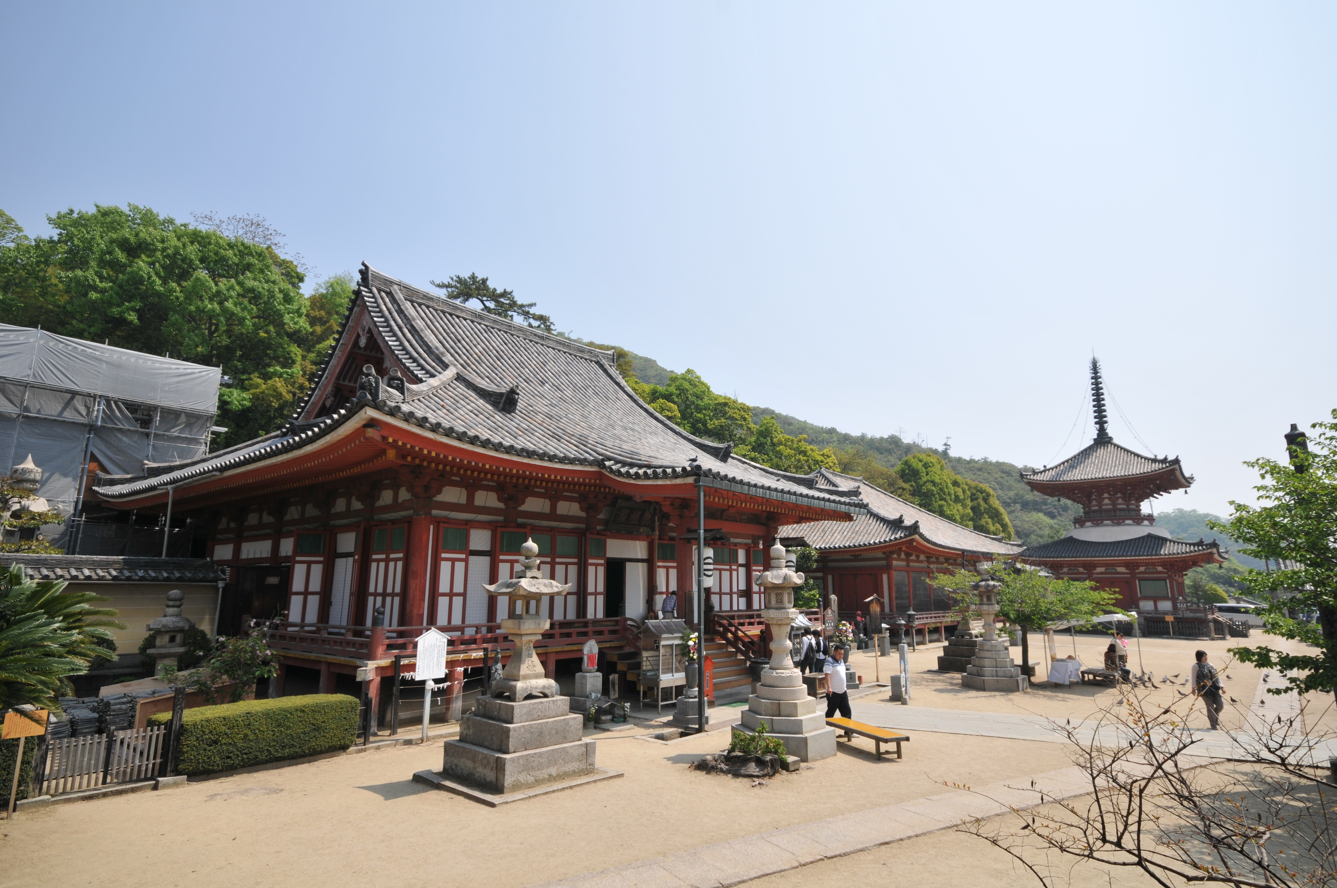 A view of the precincts of Jodo-ji temple, located in Onomichi City, Hiroshima, Japan. (From left to right) Hon-do (Main Hall) (National treasure of Japan), Amida-do (Japan's national important cultural property), and Taho-to (two-storied pagoda) (National treasure of Japan)